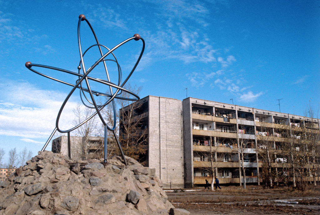 Kurchatov city, East Kazakhstan Province, Kazakhstan - the center of the Semipalatinsk nuclear test site.